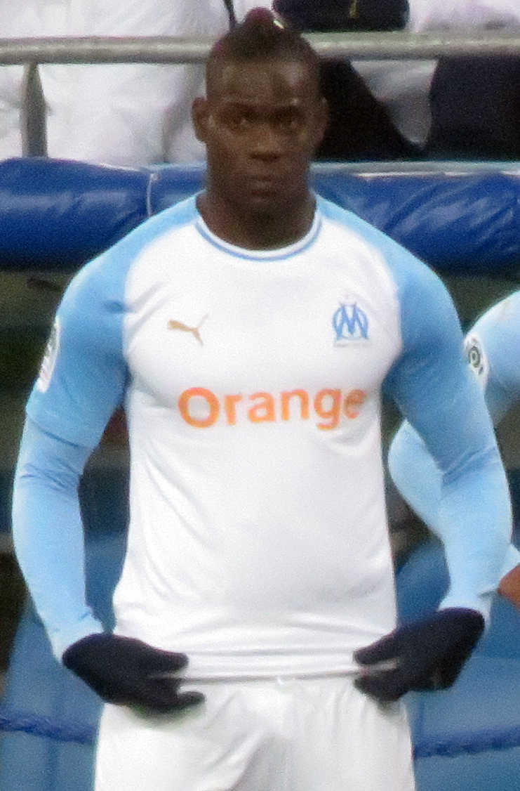 Mario Balotelli before entering the game and making his Olympique de Marseille debut in the Lille OSC match on Friday, January 26, 2019